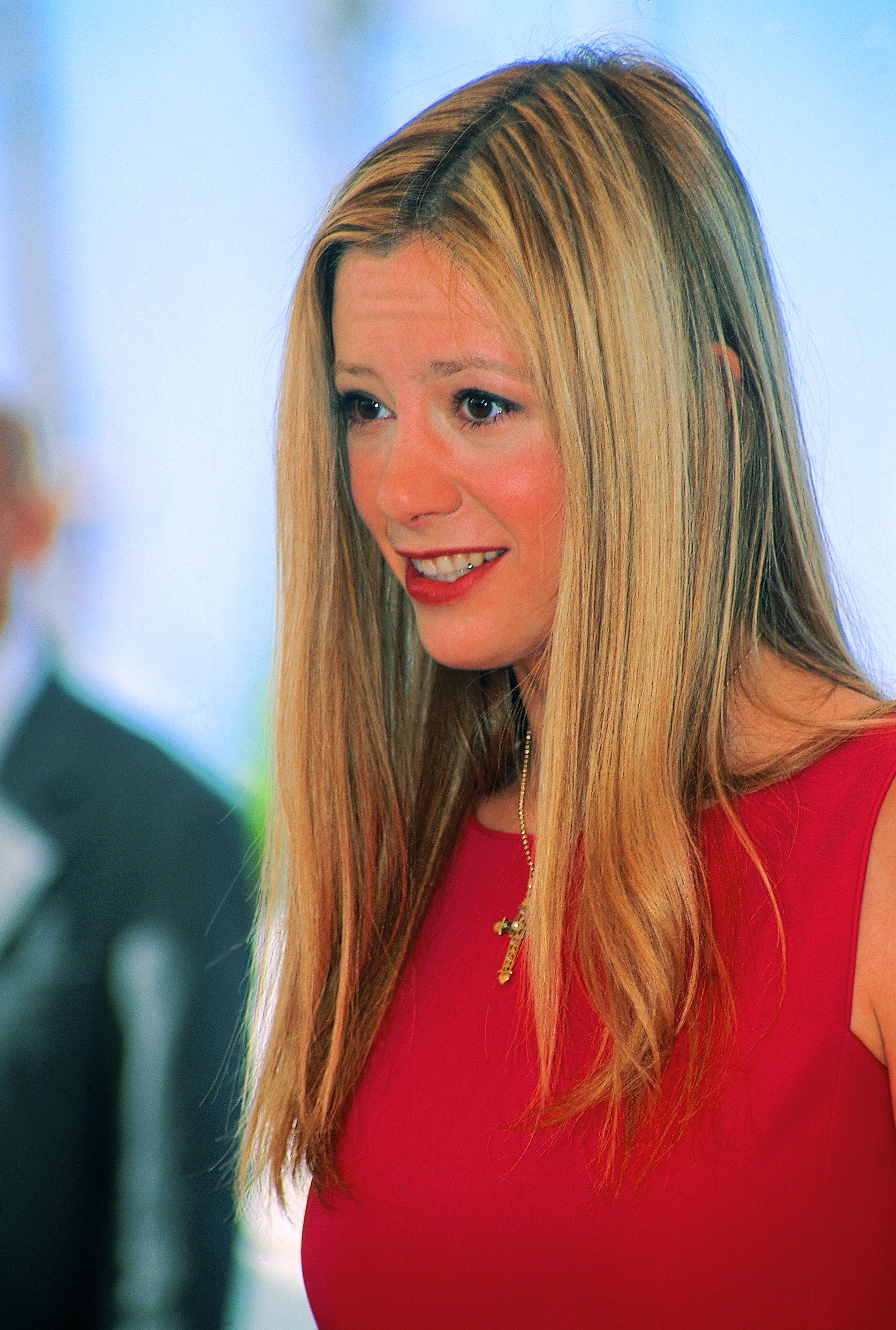 Mira Sorvino in Cannes in 2000. My own picture. Created by Rita Molnár 2000.